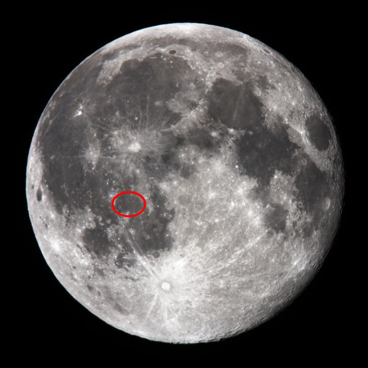 The Location of Mare Cognitum, One of the Lunar Geographical Features.